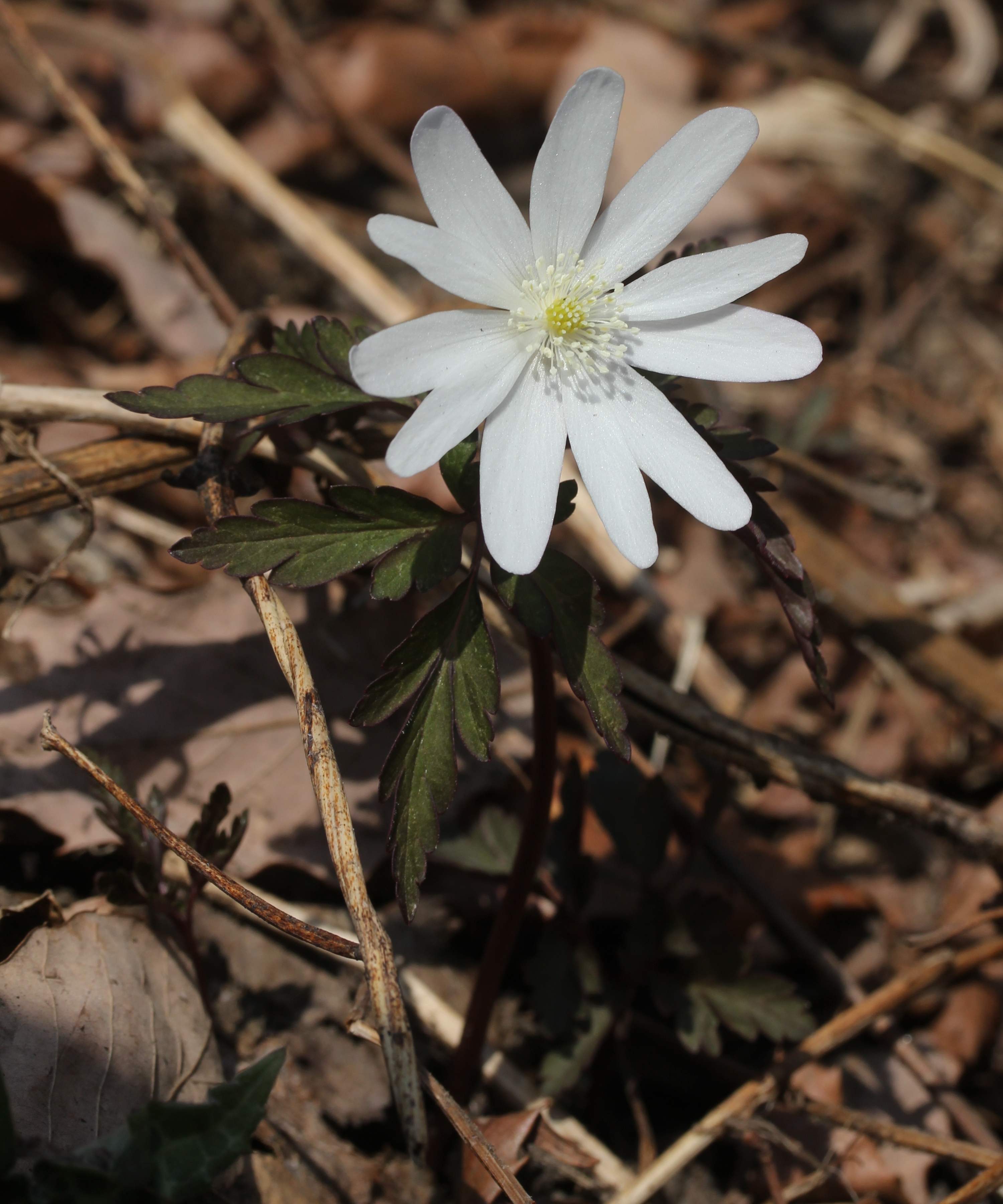 Anemone pseudoaltaica (white flower), in Mount Dainichi, in Gujō, Gifu prefecture, Japan.